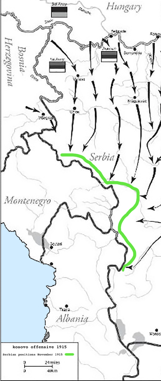 Serbian Army last frontline before the great retreat